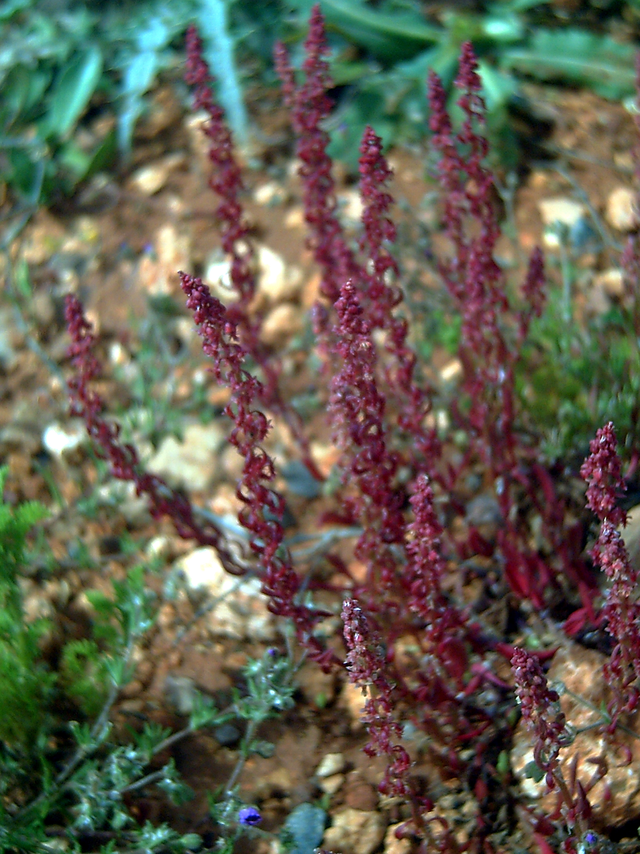 Rumex_bucephalophorus in Mestanza, Castilla La Mancha, Spain